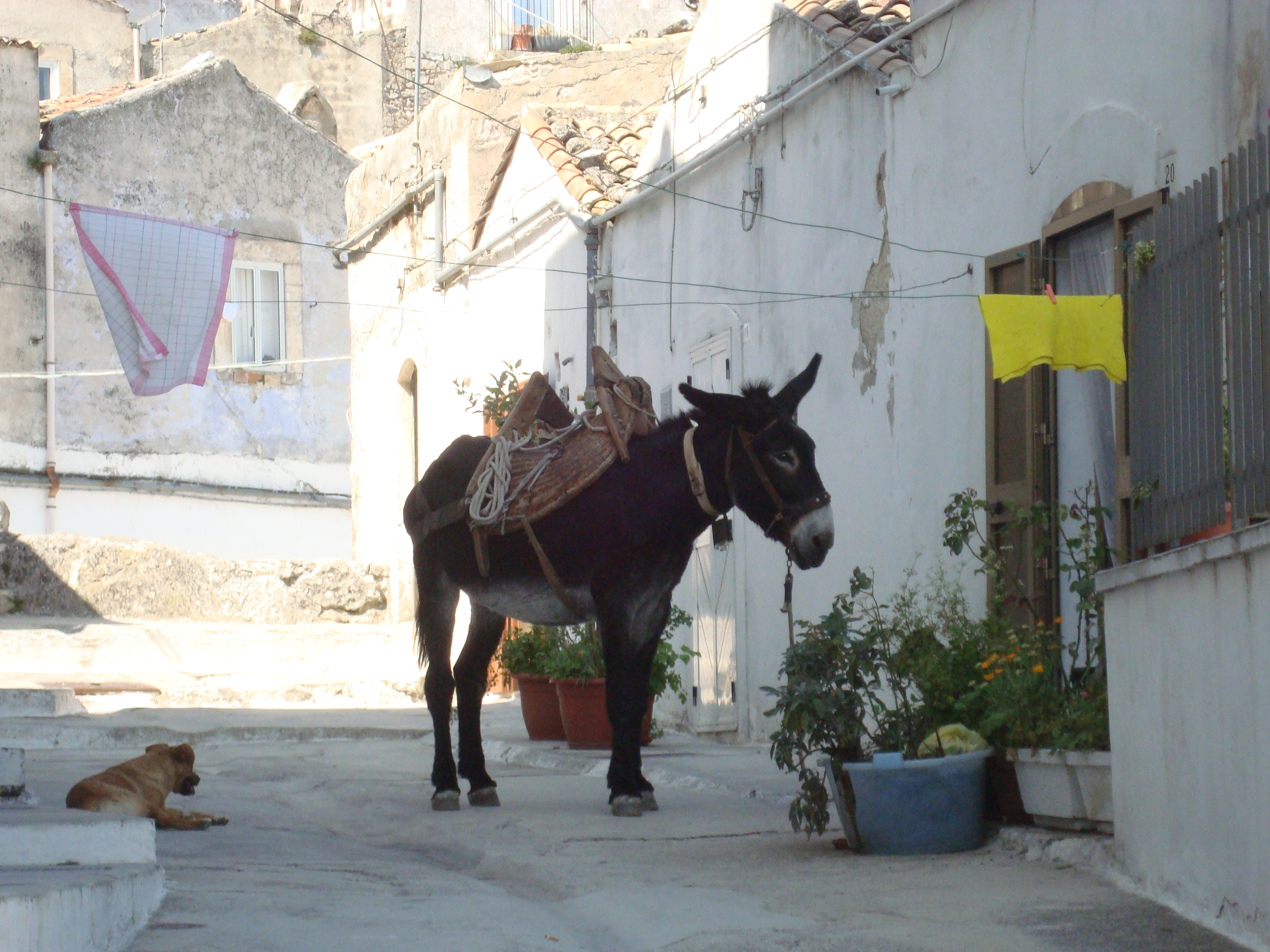 A donkey in the streets of Monte Sant'Angelo in Italy